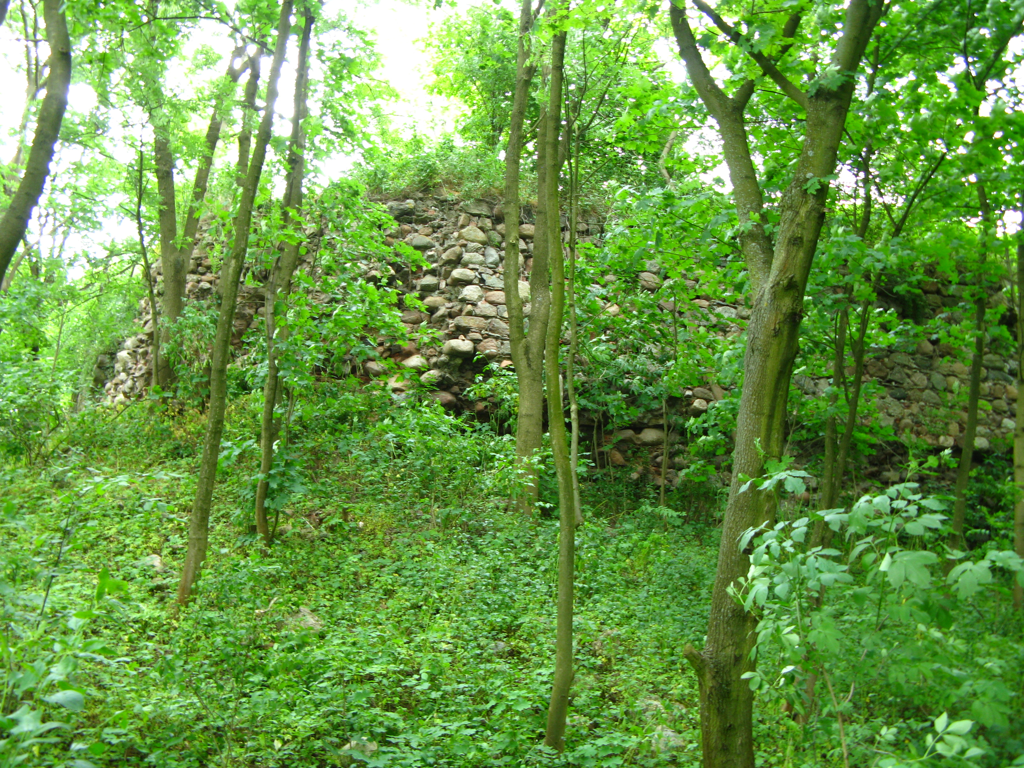 Ruin of castle in Lipienek